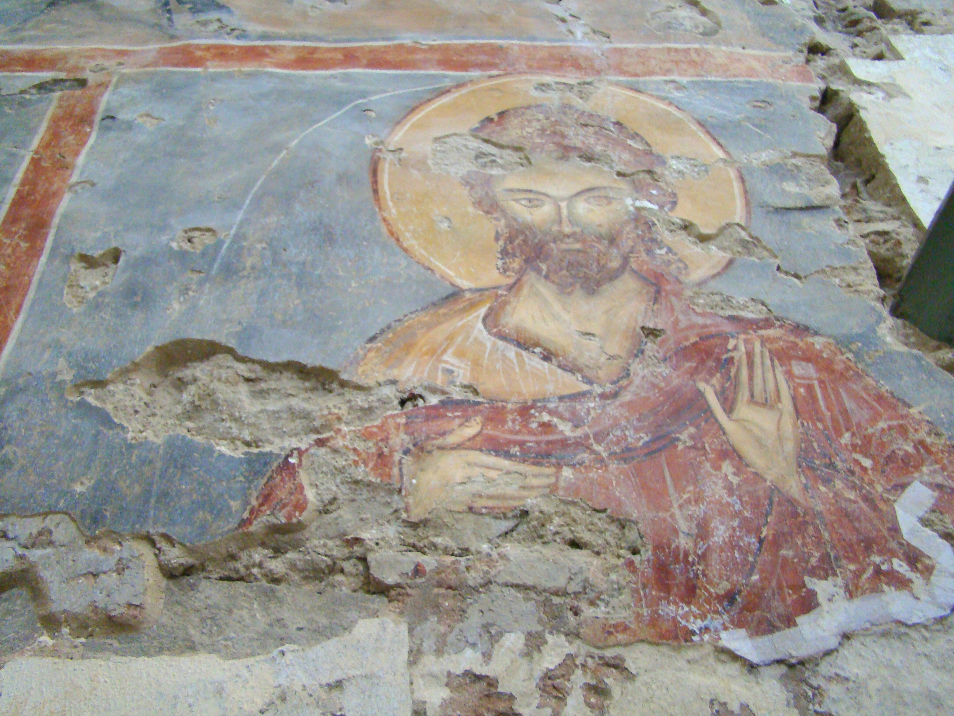 Fortified church in Bunești, Brașov County, Romania